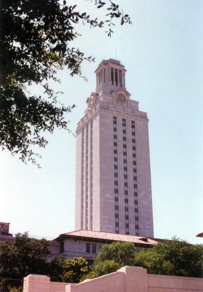 The bell tower at the University of Texas at Austin. Photograph taken in August 1989 by User:Angr.